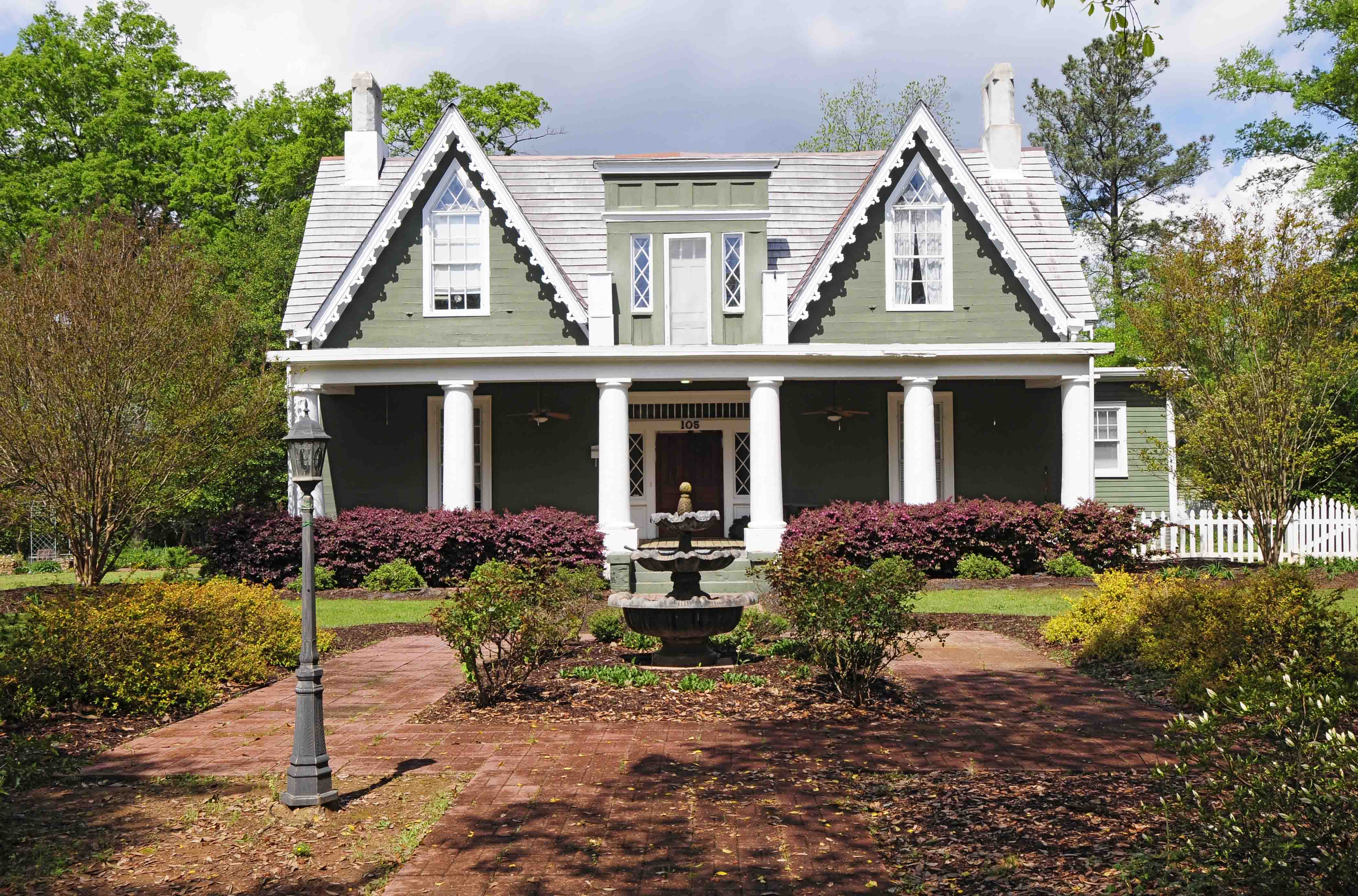 Sunnyside